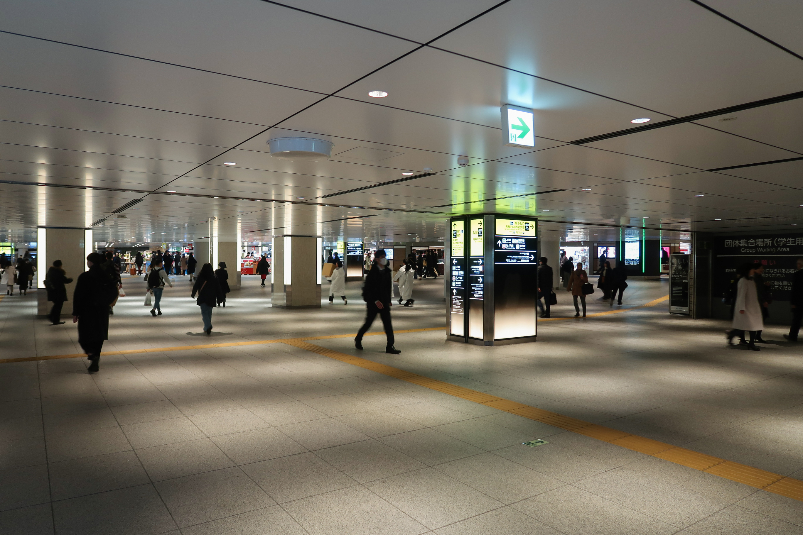 Basement access to Tokyo Station